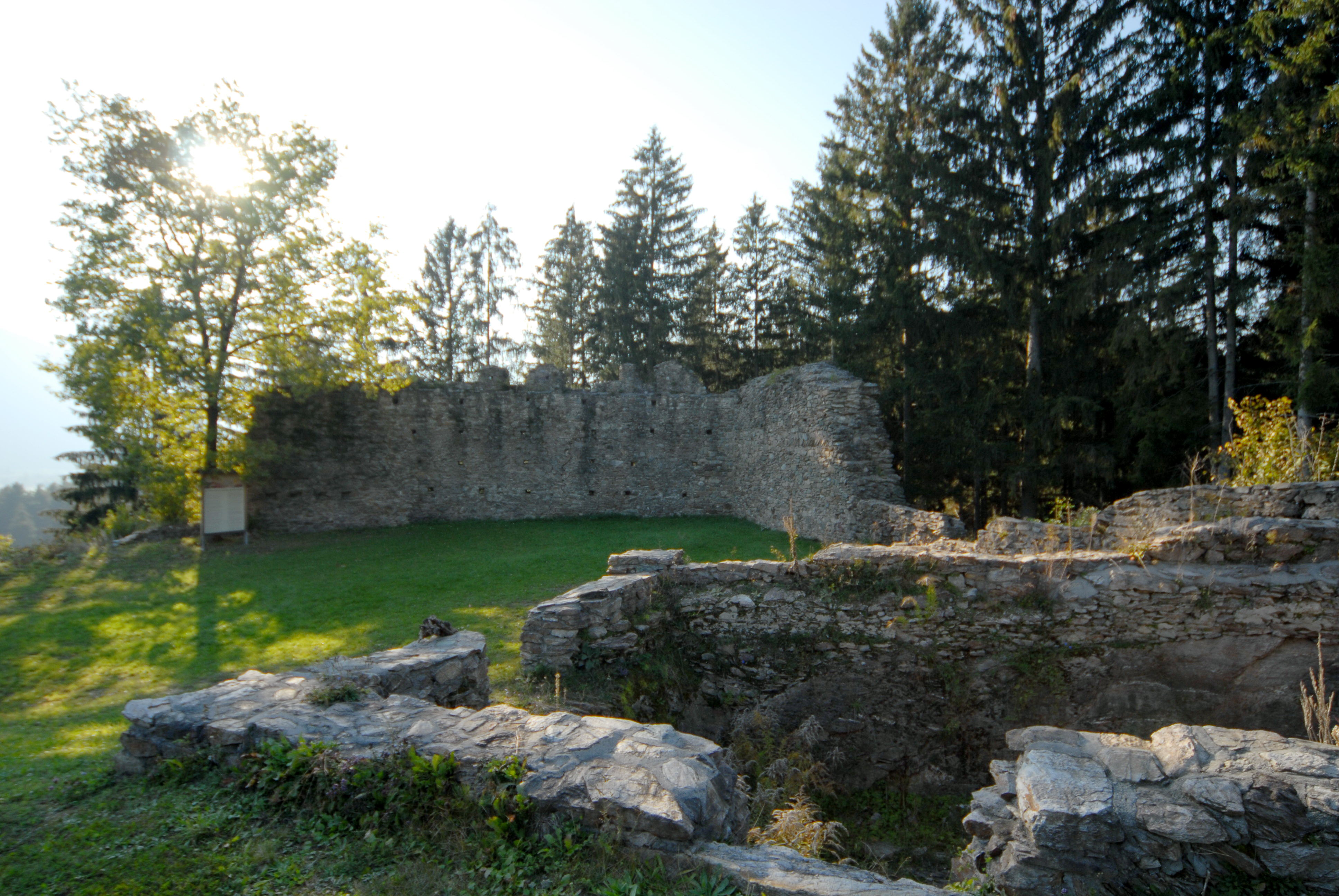 Ruin of castle Feldsberg in the community of Lurnfeld, Carinthia, Austria